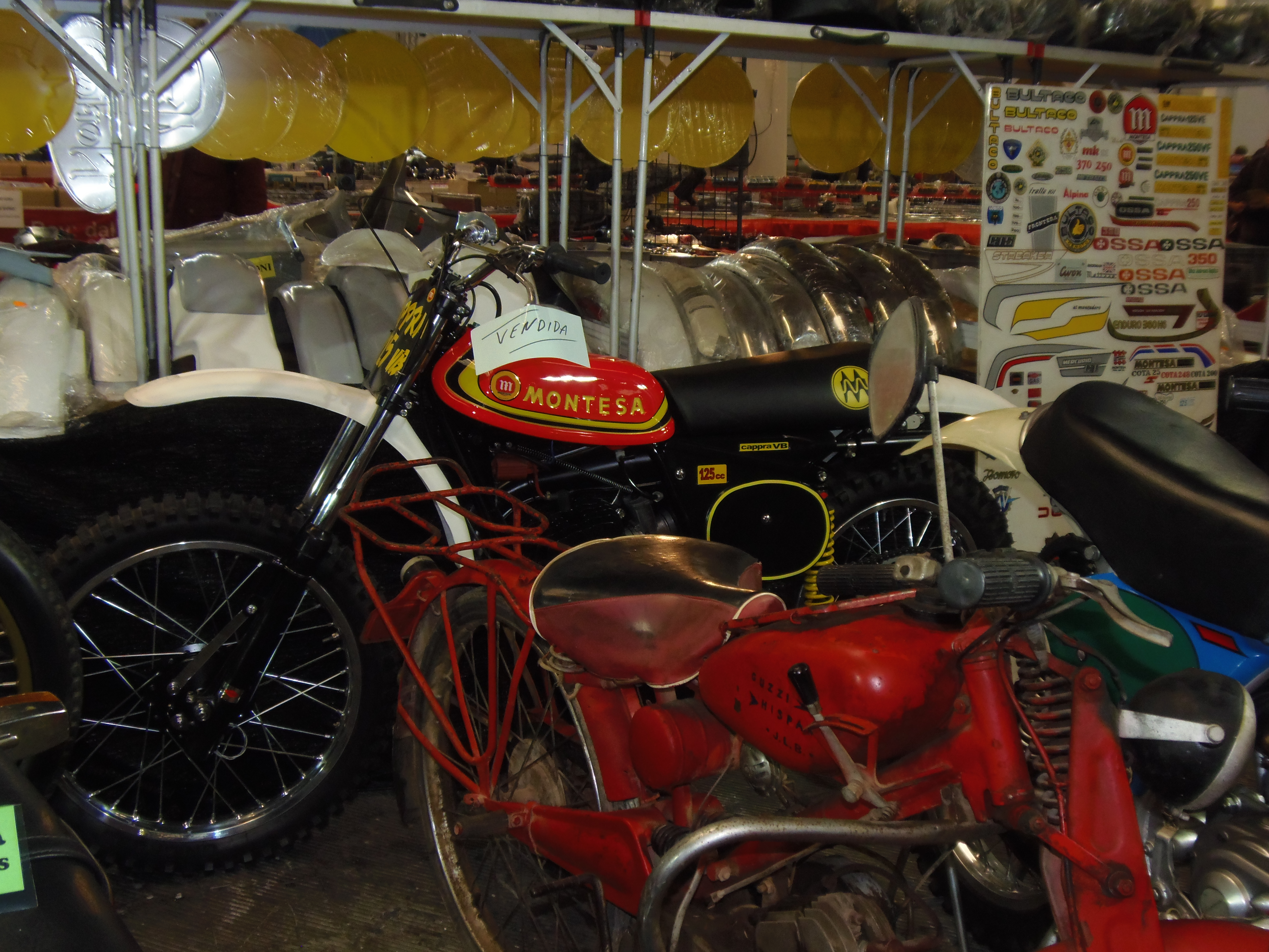 Montesa Cappra VB 125, 1976